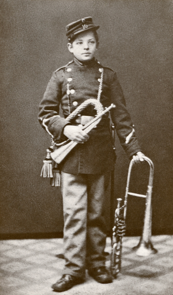 Carl Nielsen in 1879 when he played for a military band in Odense, Denmark